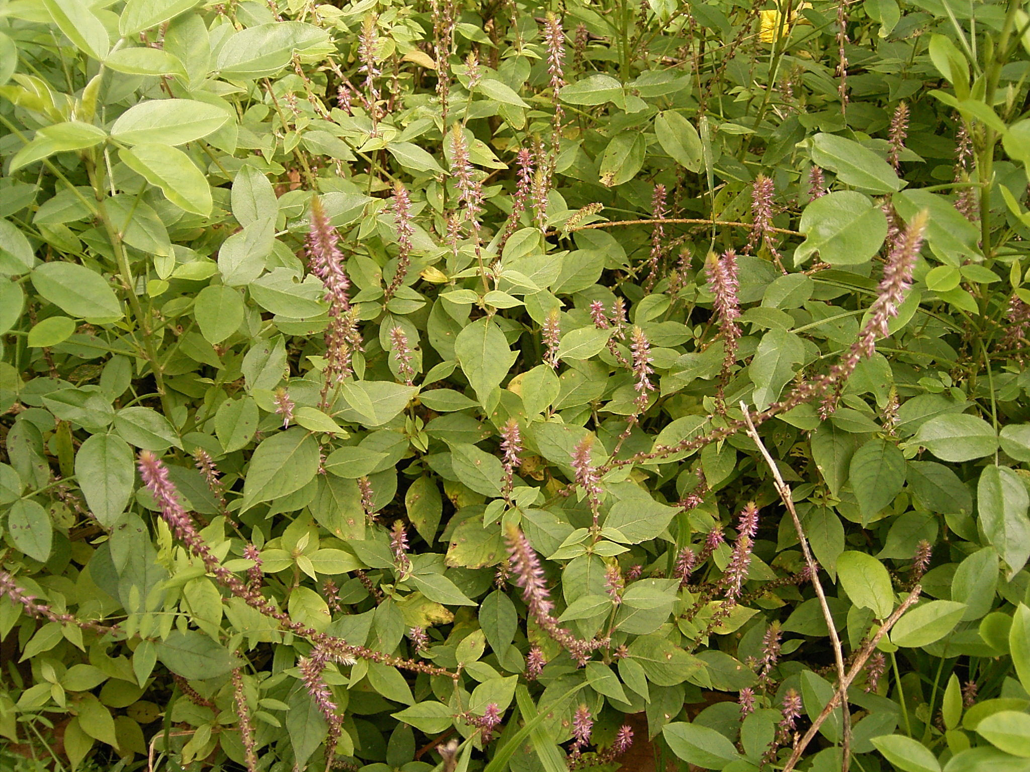 Achyranthes aspera growing in Puntallana, La Palma, Canary Islands